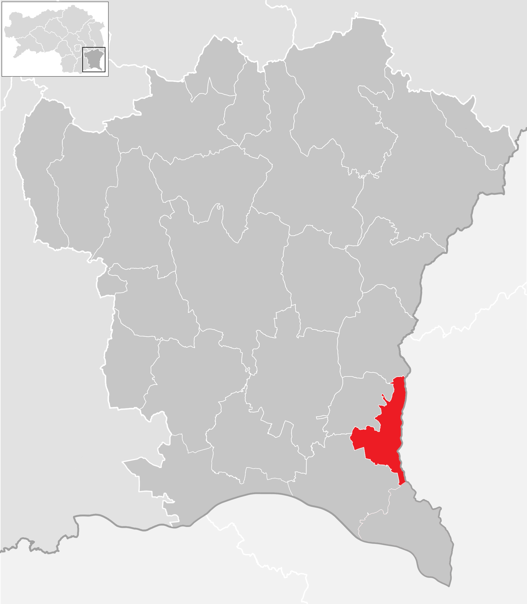 district Südoststeiermark